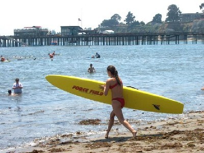 Summer on the beach at Capitola, CA.